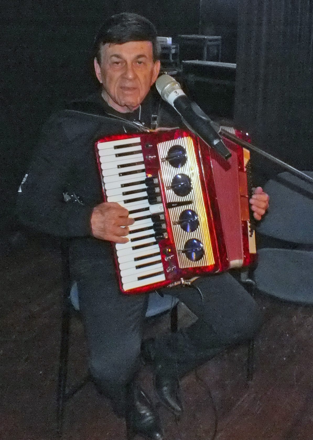 Senior leader-presentor of Isreali sing-along nights with slide-show lyrics, this genre somehow never sinks in popularity or gets dull.